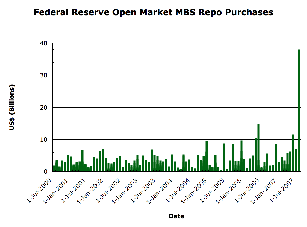 Plot of the US Federal Reserve Open Market Purchases of Repo Mortgage Backed Securities (MBS), 2000–2007; based on US government data from